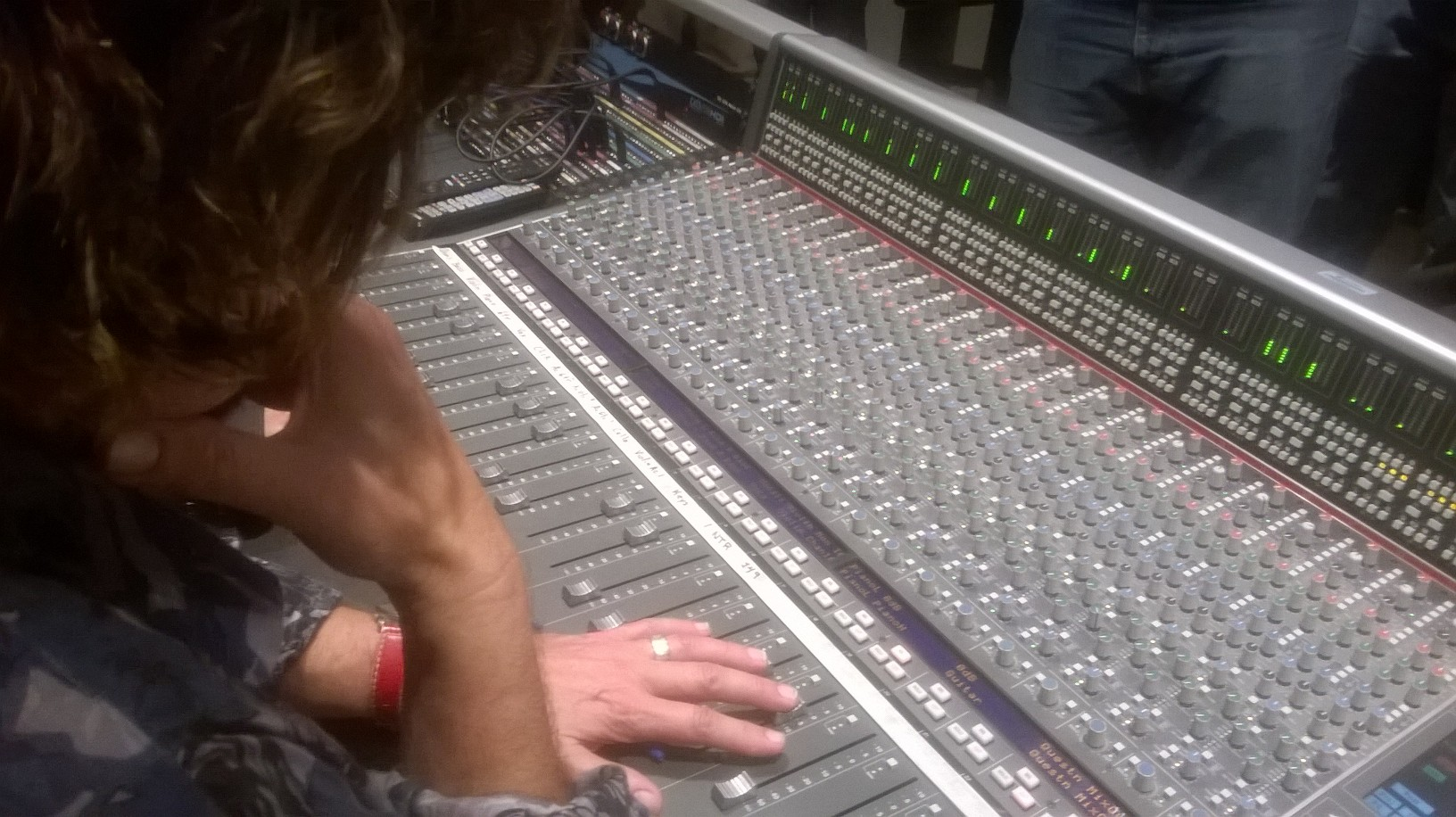 Allan Parsons mixing during a master class at Tecnológico de Monterrey Campus Ciudad de México